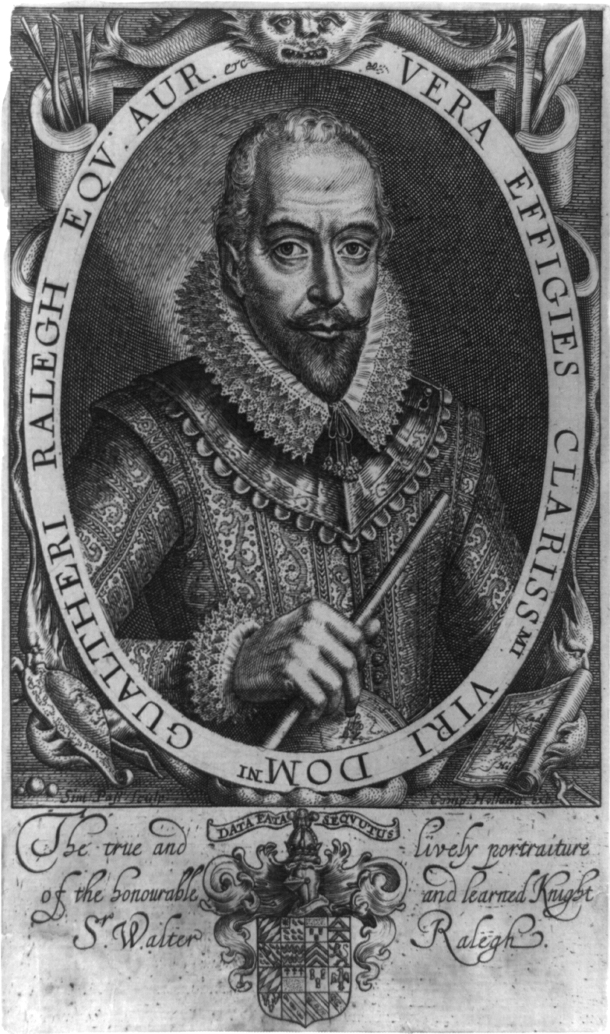 An engraved portrait of Sir Walter Raleigh.